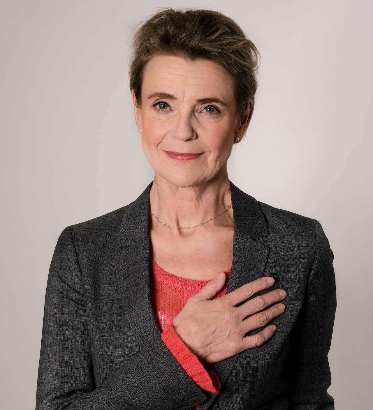 Finnish actress Stina Ekblad in a promotional photo for the The Swedish Heart-Lung Foundation.